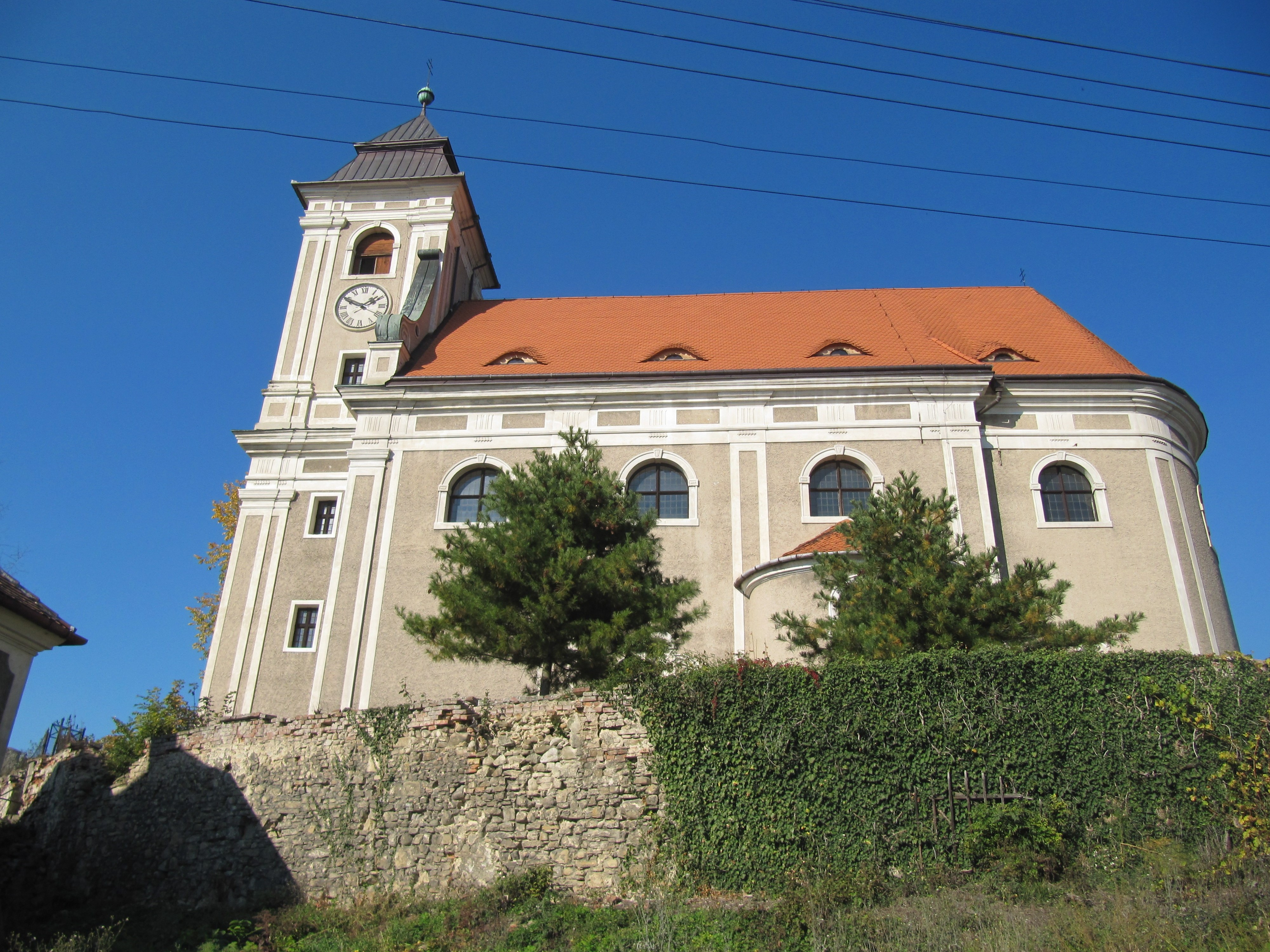 Litenčice in Kroměříž District, Czech Republic. Parish church of St. Peter and St. Paul.